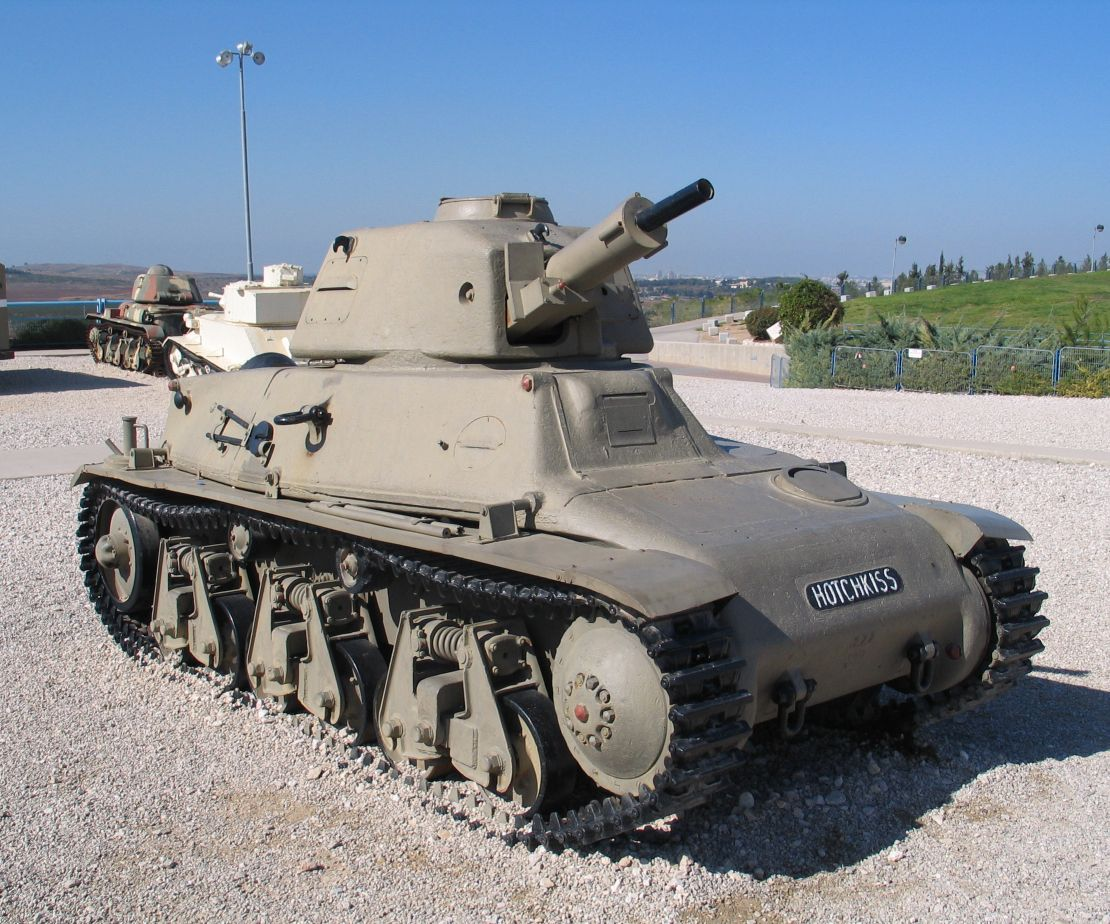 Description: Hotchkiss H-39 light tank in Yad la-Shiryon Museum, Israel. 2005. Source: Photo by me, User:Bukvoed